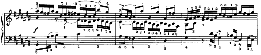 Excerpt from Wohltempierte Klavier by J.S. Bach, Prelude and Fugue No. 3 in C# major, BWV 848, showing a brief passage in G sharp major.